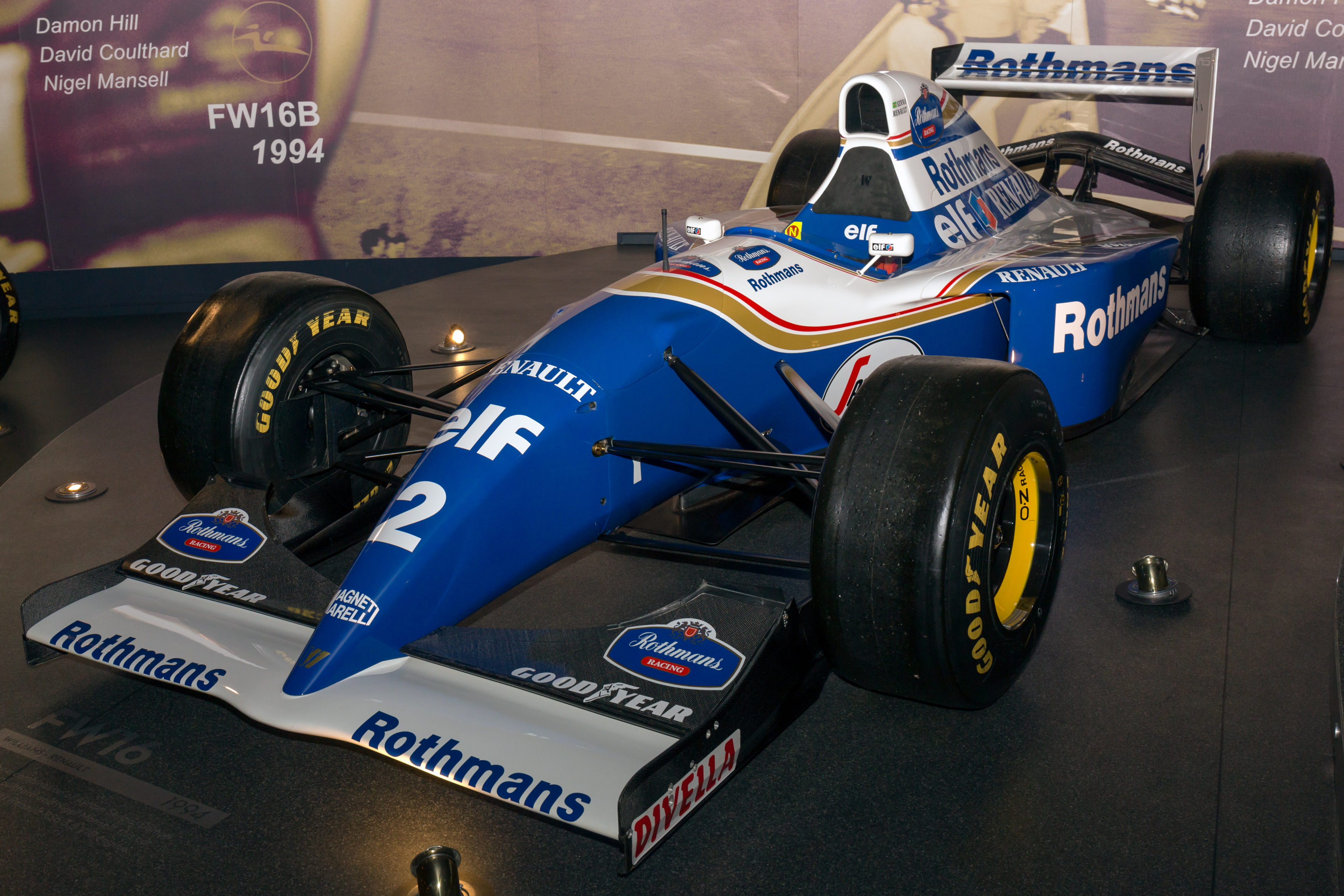 Williams Conference Centre (Grove): Williams FW16 (reproduction) of Ayrton Senna